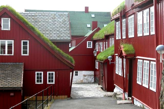 Street on Tinganes, in Tórshavn old town, Faroe islands.